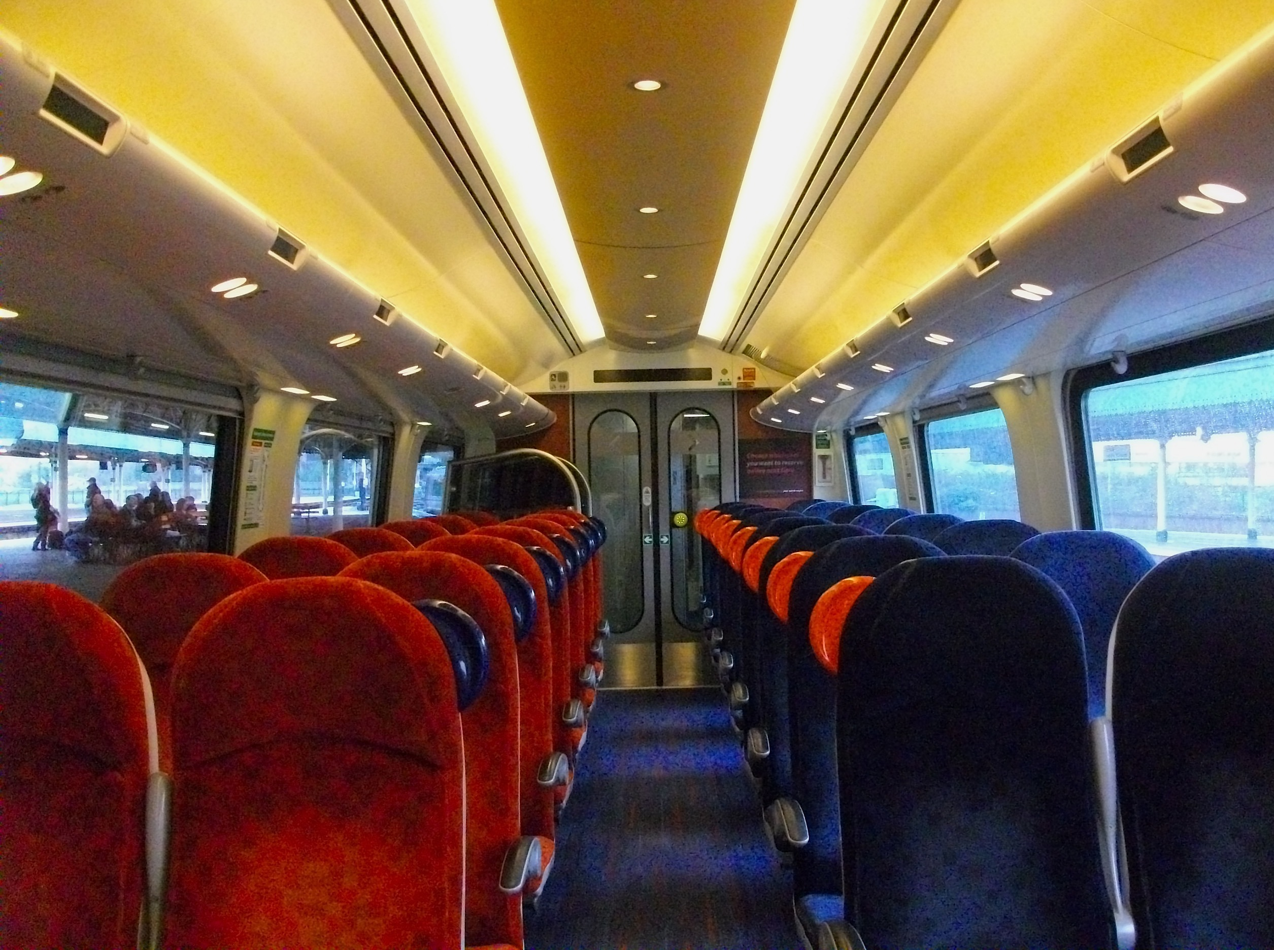 The interior of Standard Class in a MSO vehicle aboard a Cross Country Class 221 'Super Voyager' DEMU train